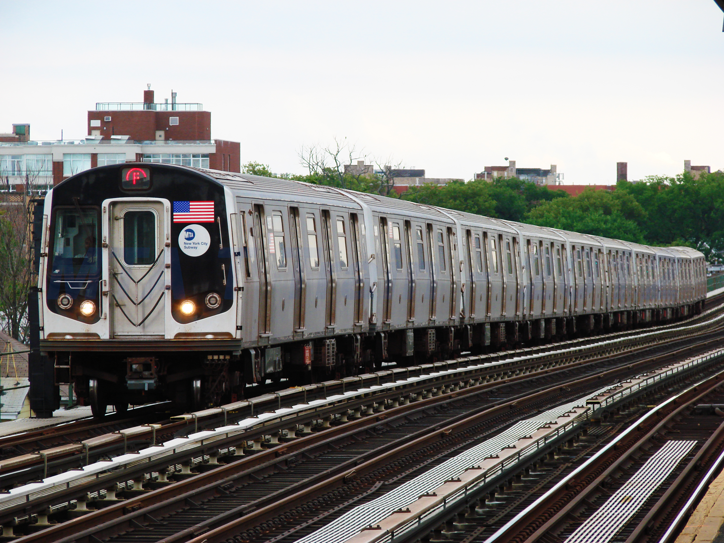 Jamaica/179th St-bound MTA NYC Subway F train of R160 cars arriving at Avenue P.